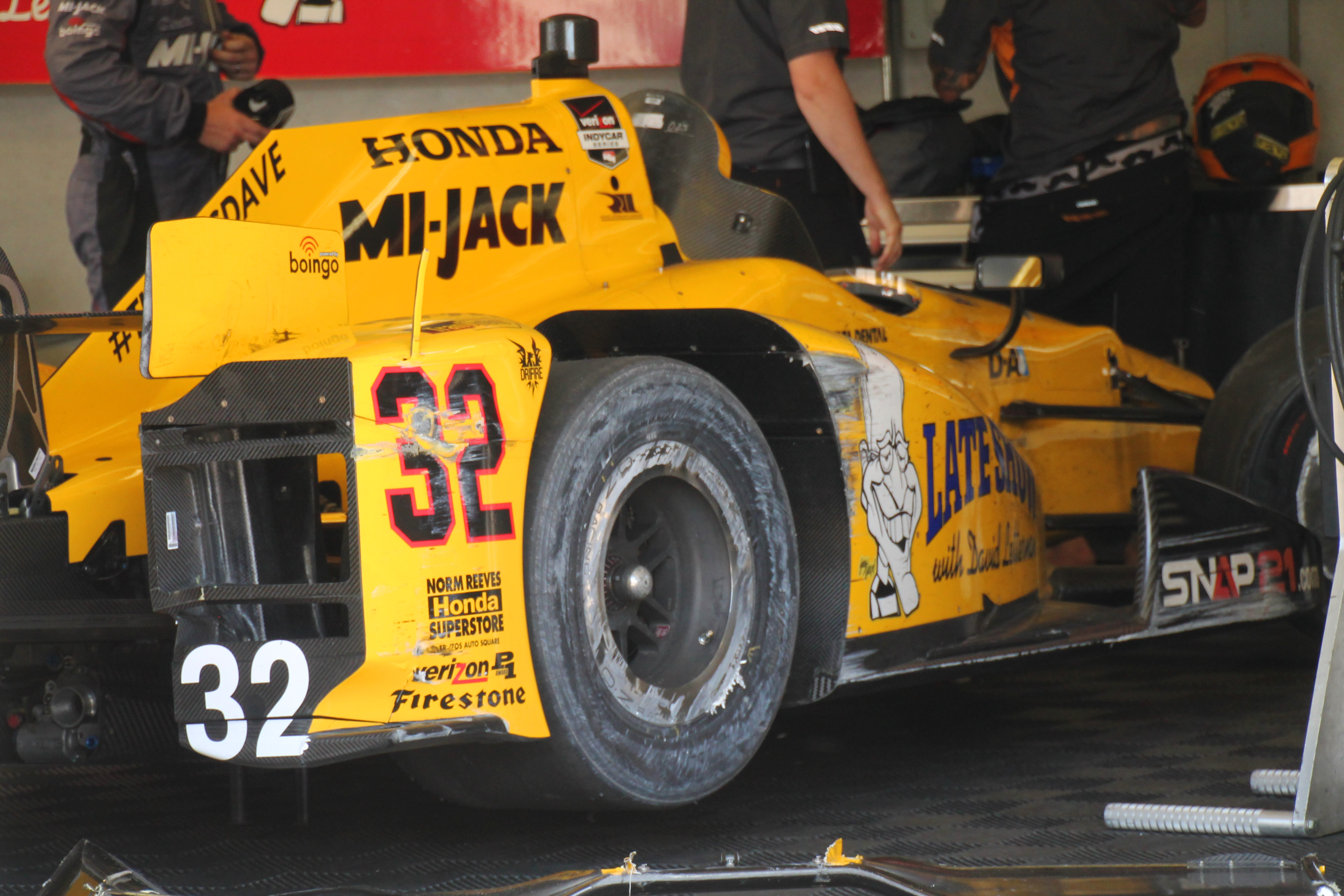 Oriol Servià's car after an accident at the 2015 Indianapolis 500